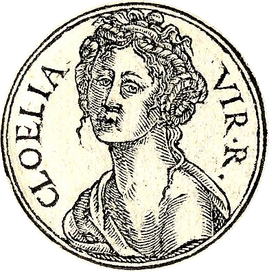 Cloelia is a figure from the early history of the city of Rome.